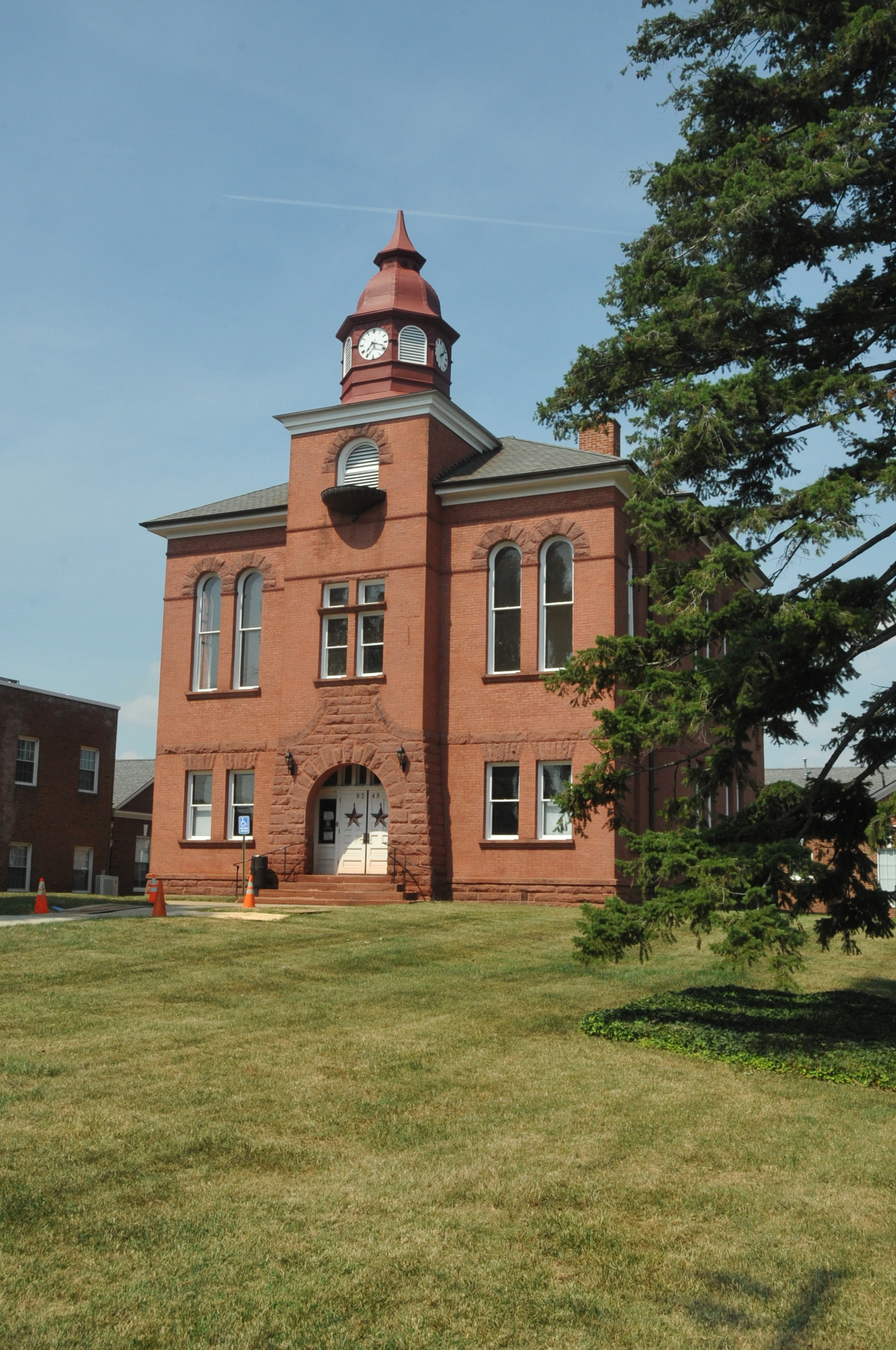 CIRCA 1897 WHEN MANASSAS BECAME THE 5TH COUNTY SEAT OF PRINCE WILLIAM COUNTY